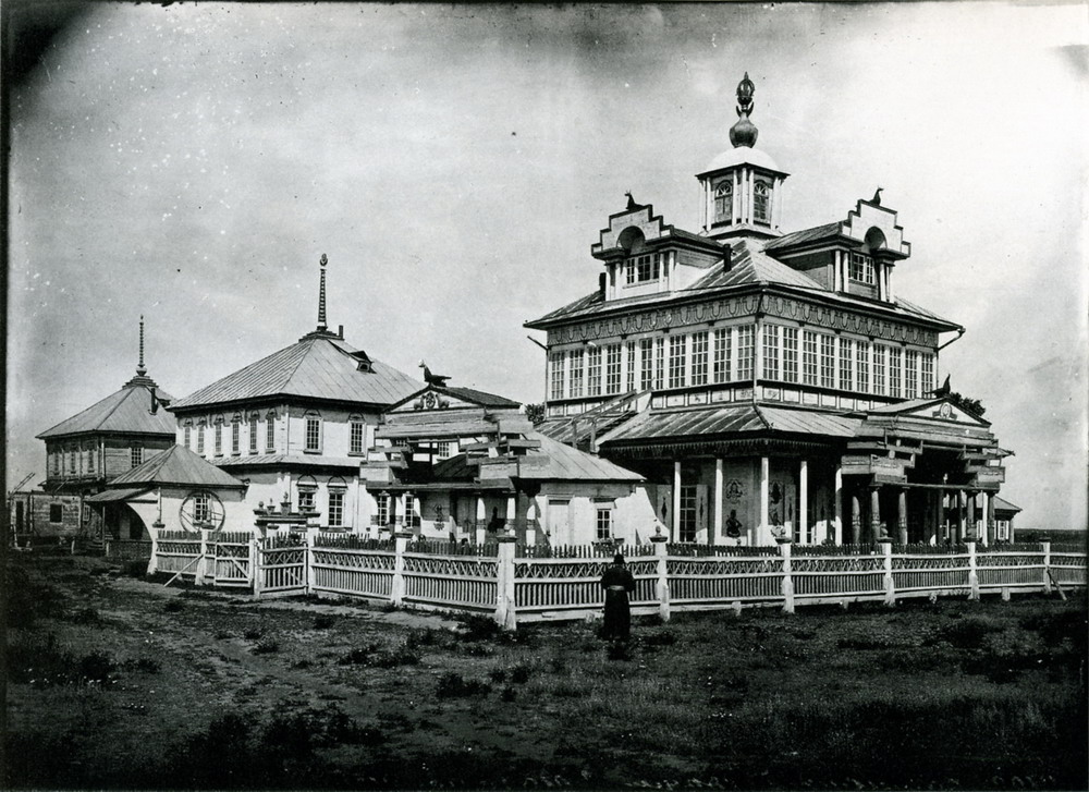 A Kalmyk khurul in the Tsagan-Aman (Tsagano-Mey)